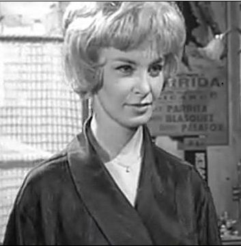 Screenshot of Joanne Woodward from the trailer for the film Paris Blues (1961).